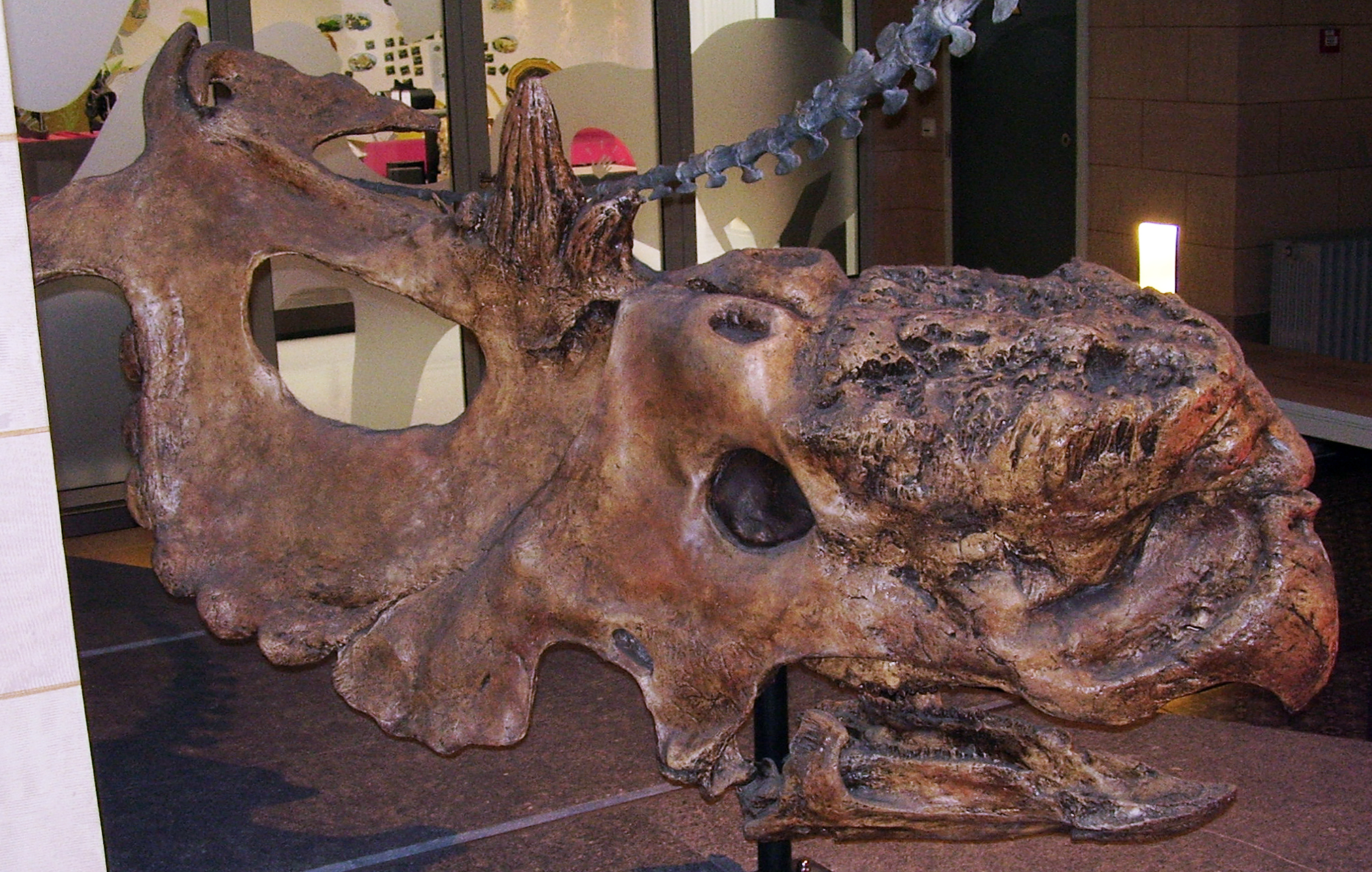 Cast of Pachyrhinosaurus skull, Brussels Natural history museum.